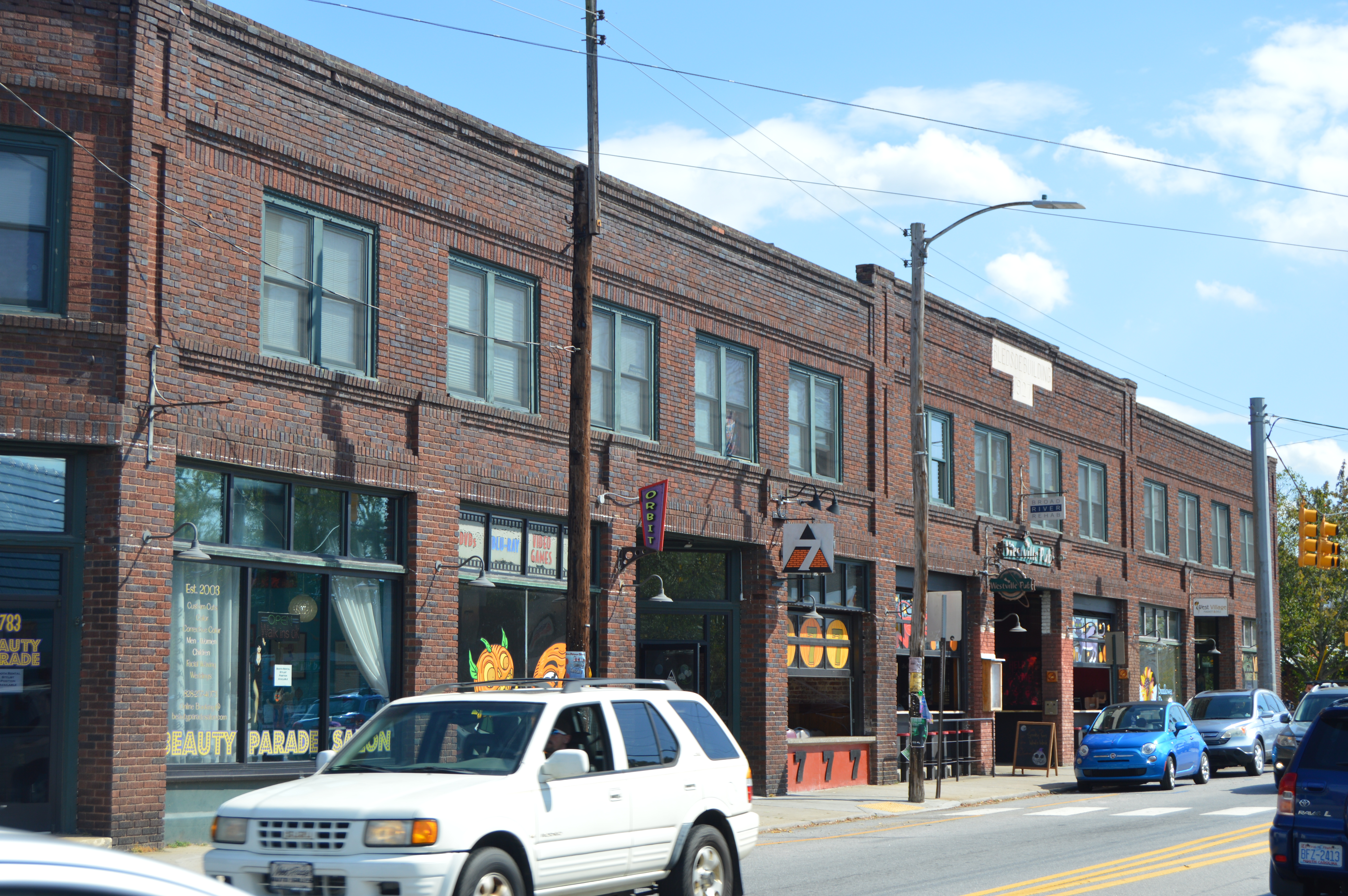 Front of the Bledsoe Building, located at 771-783 Haywood Street in Asheville, North Carolina, United States. Built in 1927, it is listed on the National Register of Historic Places.